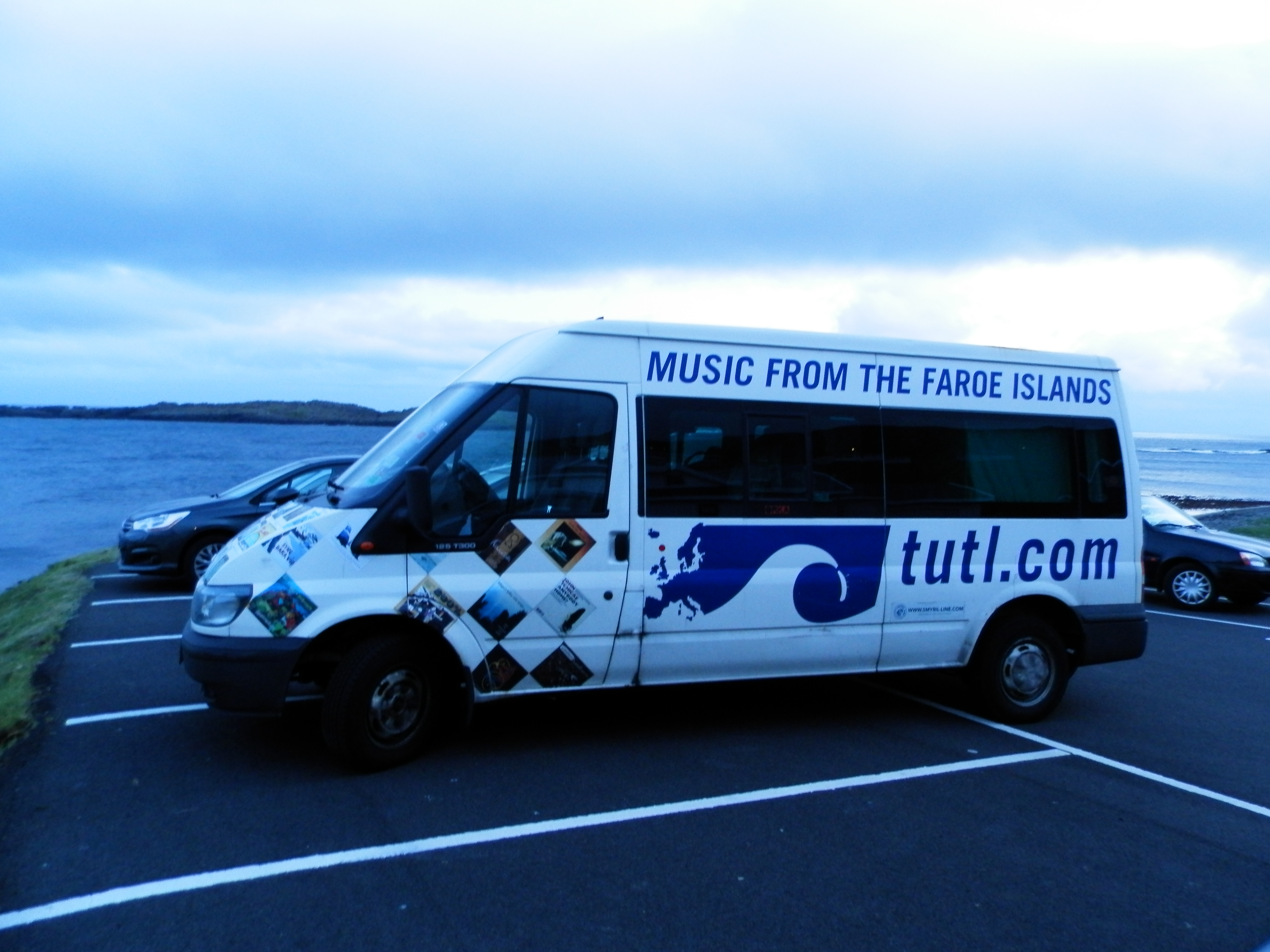 The Tutl buss in Sumba, Faroe Islands. Tutl is a Faroese record label.